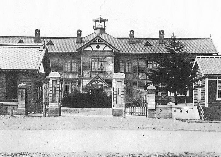 Karafuto District Court